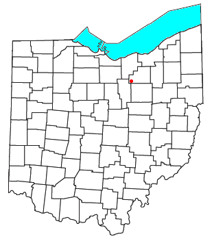 Locator map of the unincorporated community of Homerville in Medina County, Ohio, United States.